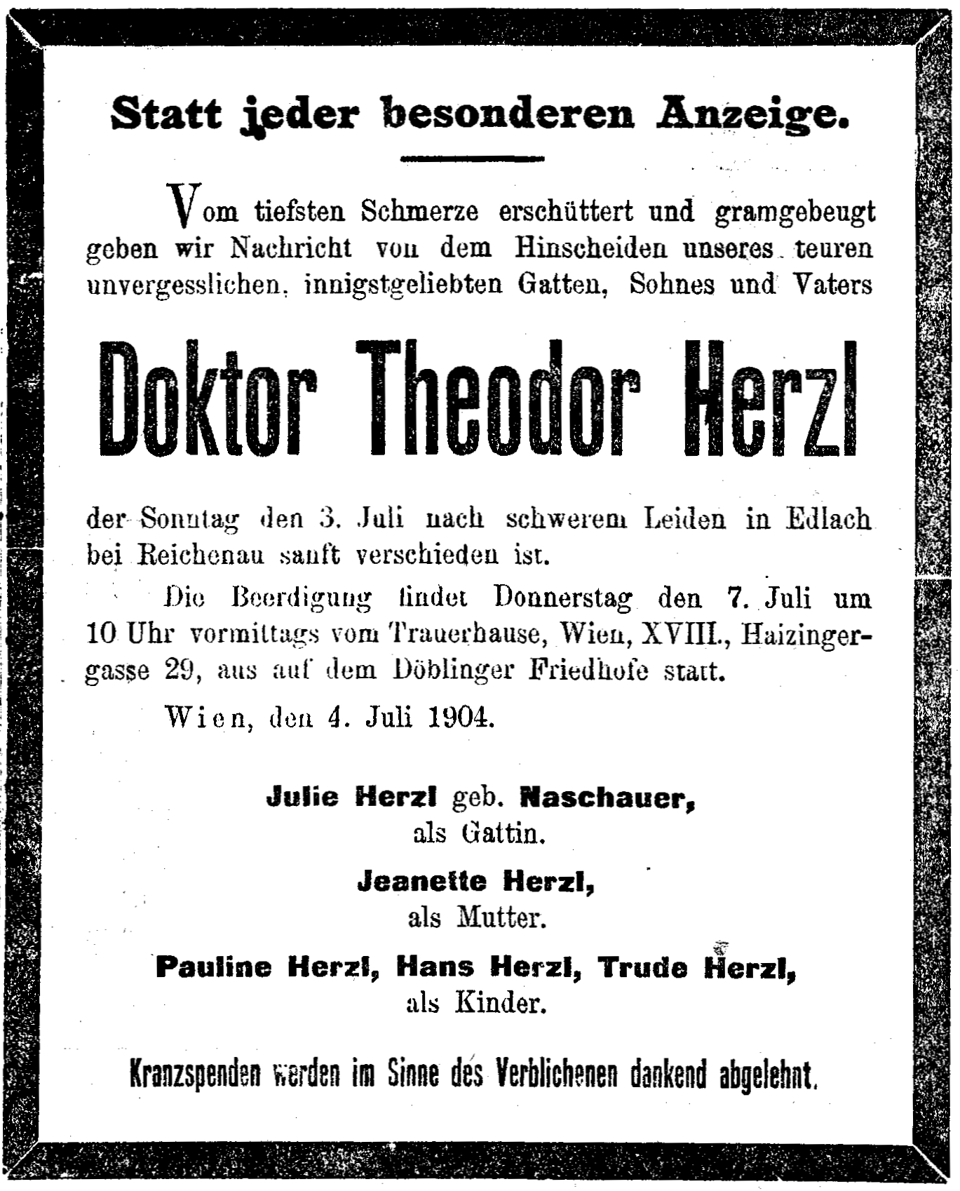 death notice of Theodor Herzl